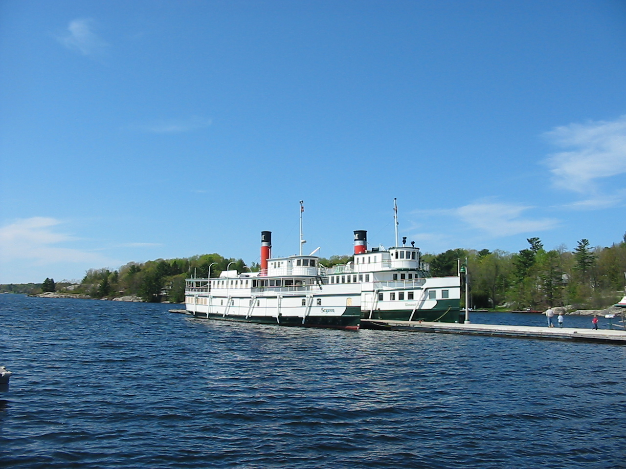 Original Segwun and replica Wenonah II, moored steam vessels, Muskoka